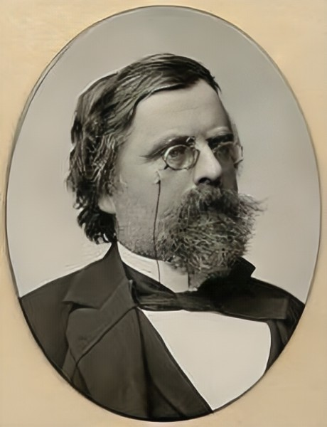 Alf Torp (1853–1916)